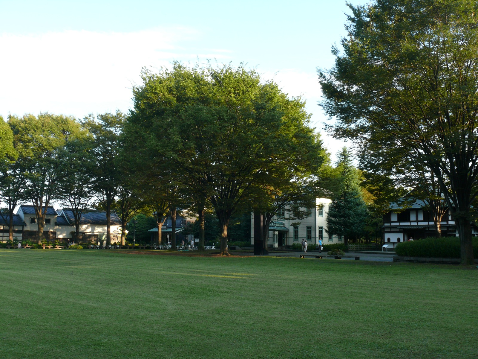 Kyodo no Mori historic buildings in Fuchu, Tokyo, Japan. These buildings were brought from other parts of Fuchu and reconstructed to form an open air park.